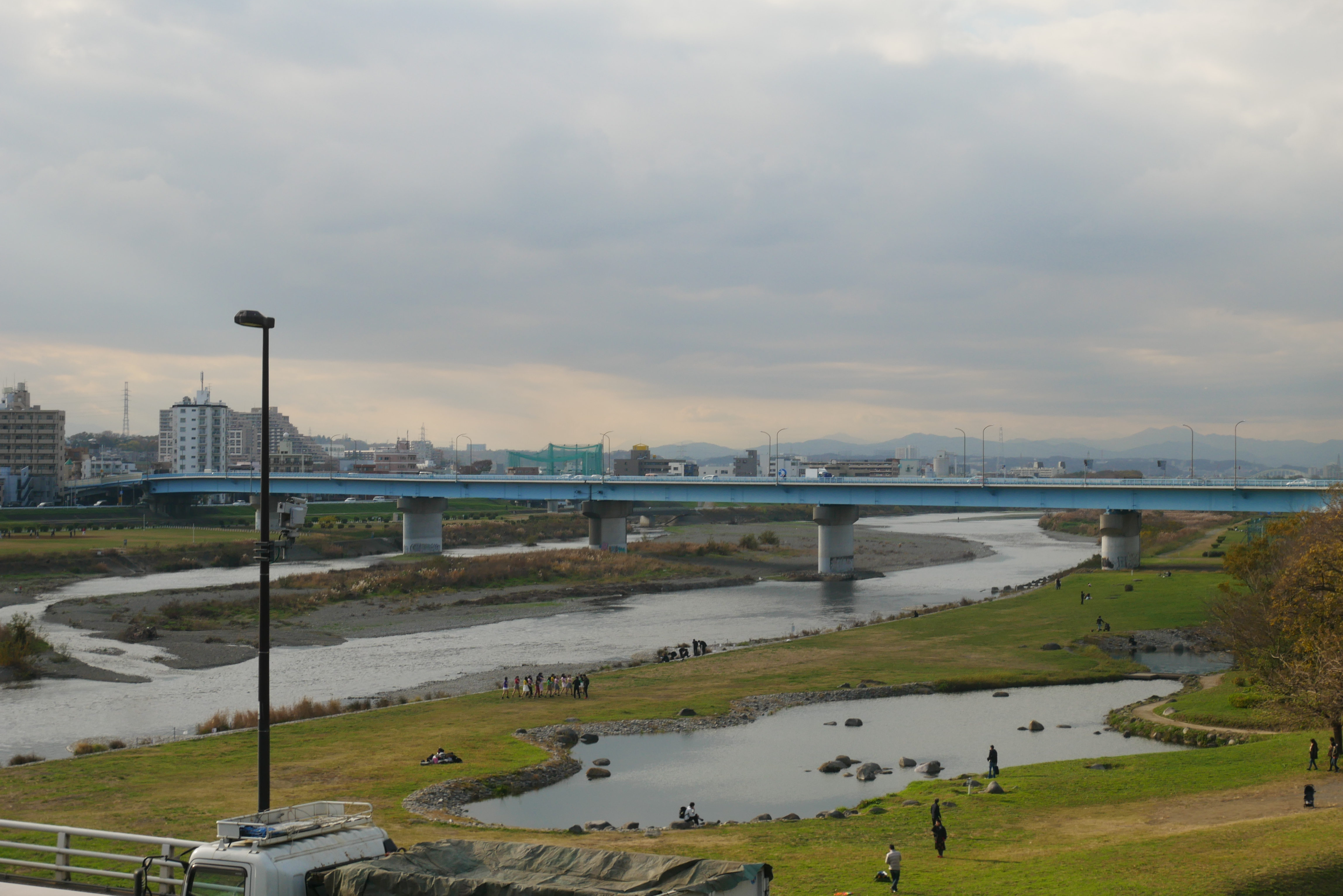 View from Futako-Tamagawa Station platforms (二子玉川駅のホームから見える眺め)